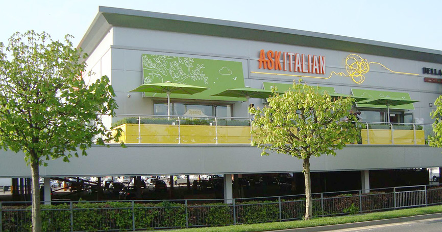 The branch of Ask Italian at Bolton Middlebrook Retail Park, Bolton, Greater Manchester, England.